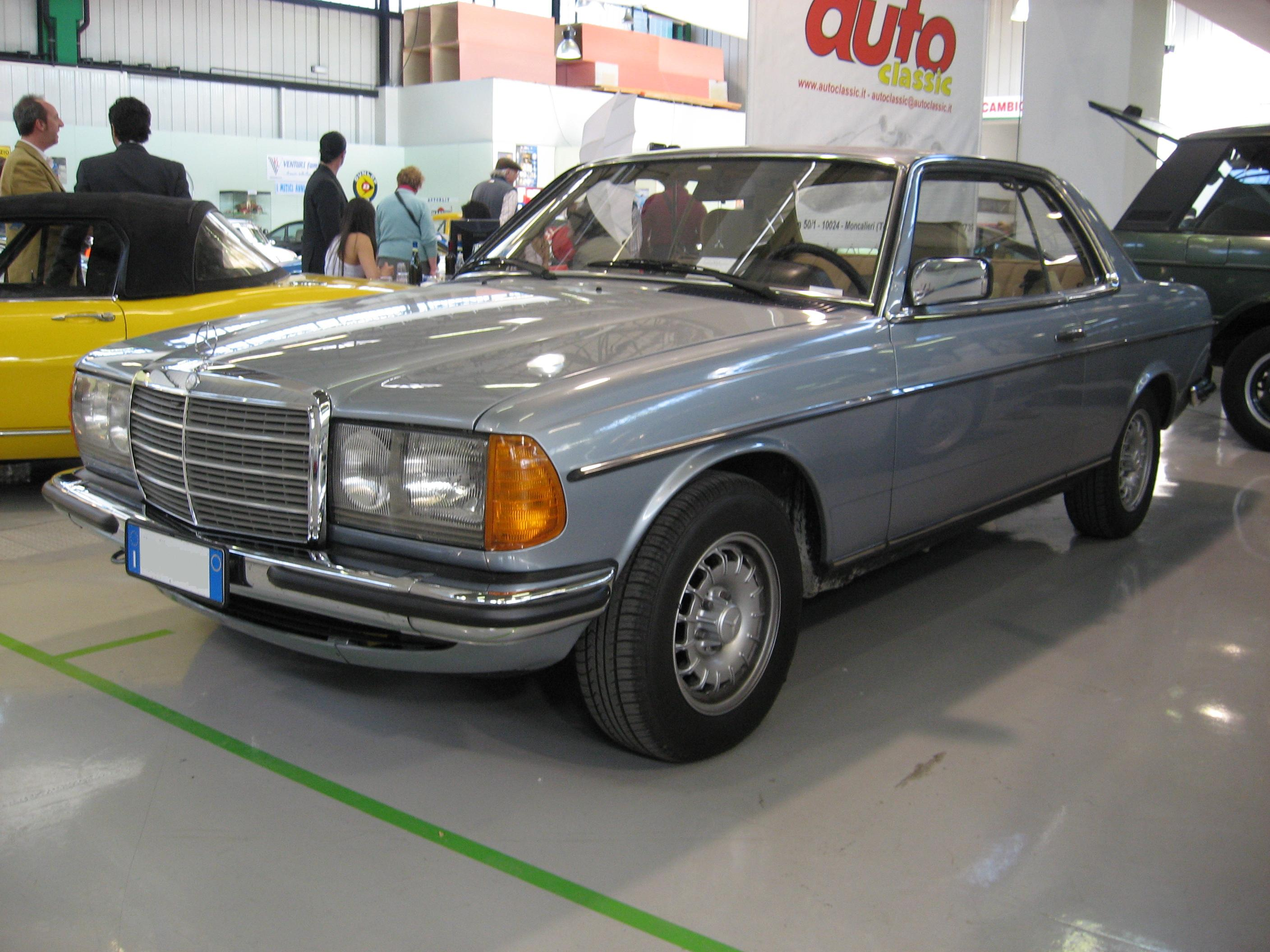 Subject:Mercedes-Benz 280 CE (W123) Author: Luc106 Date: 18th March 2007 City/Country: Forlì (Italy) Event: Old Time Show I release all rights in the public domain.